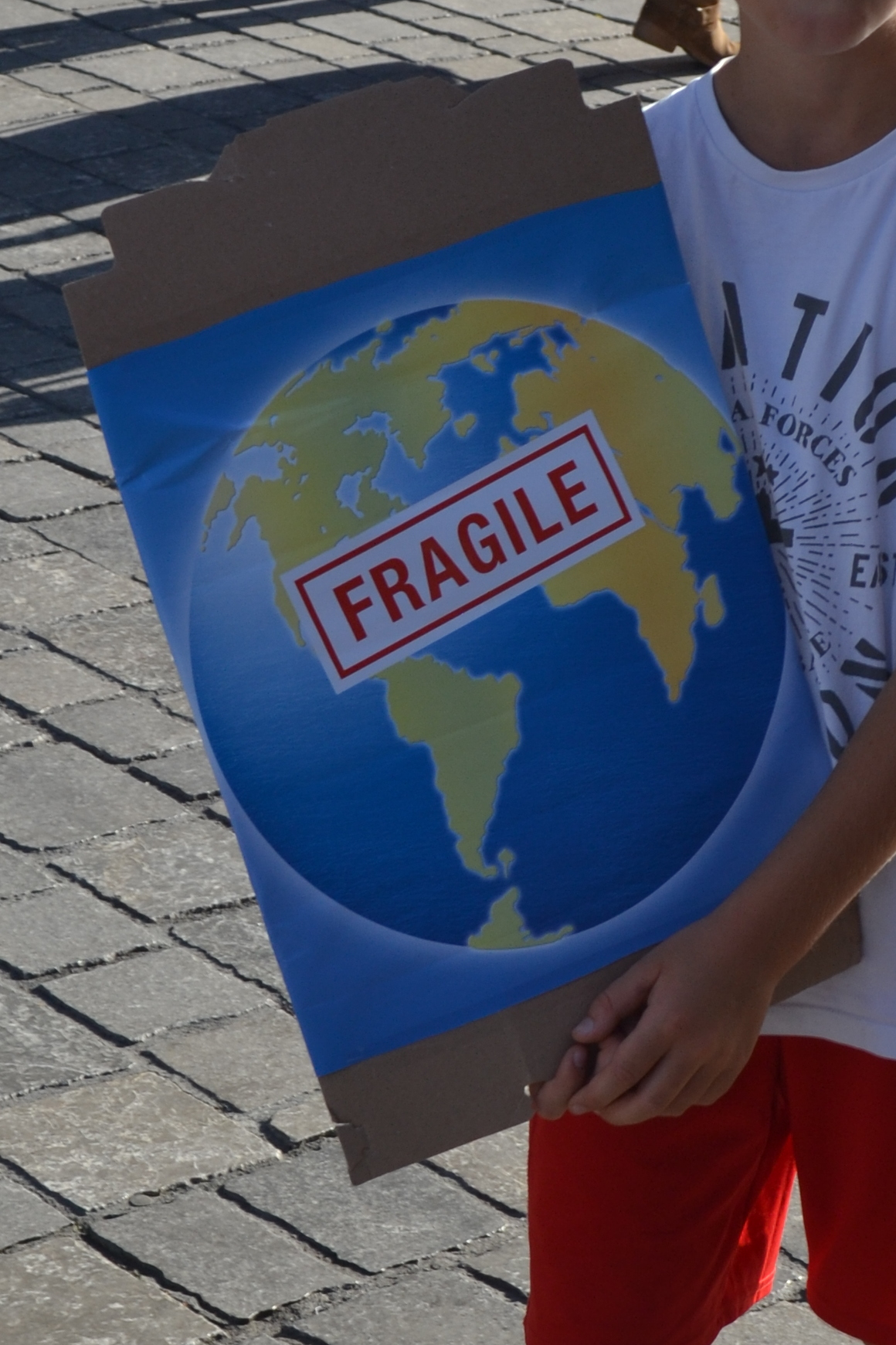 "Rise for climate" protest in Pau (France), on 8 September 2018.